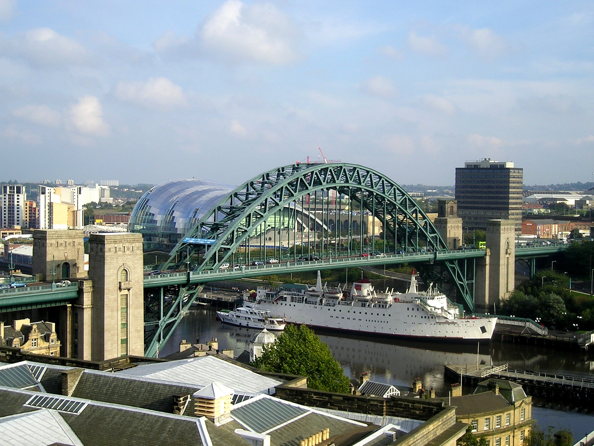 The Tyne Bridge in Newcastle upon Tyne, England, viewed from the Newcastle side. The Sage is the building behind the bridge. The ship beneath the bridge is the permanently moored Tuxedo Princess floating nightclub (the former car ferry TSS Caledonian Princess). The central pier of the Swing Bridge is also visible in the river, to the right.